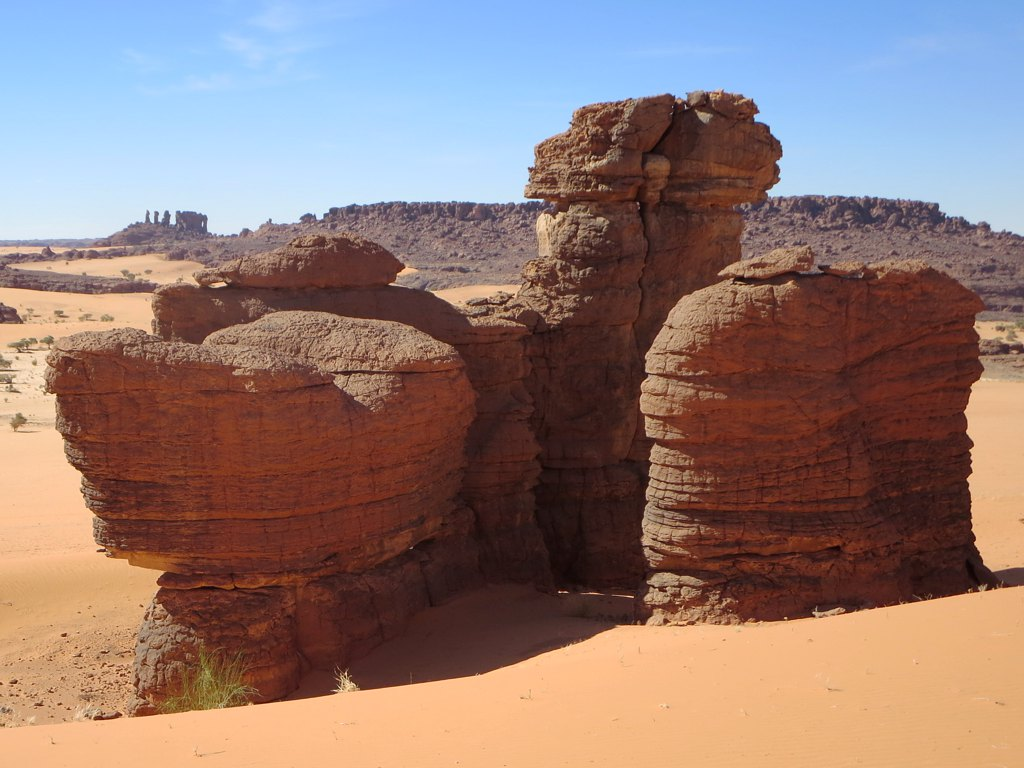 The view from Abaike in the Ennedi Mountains of northeastern Chad, Central Africa, is breathtaking.